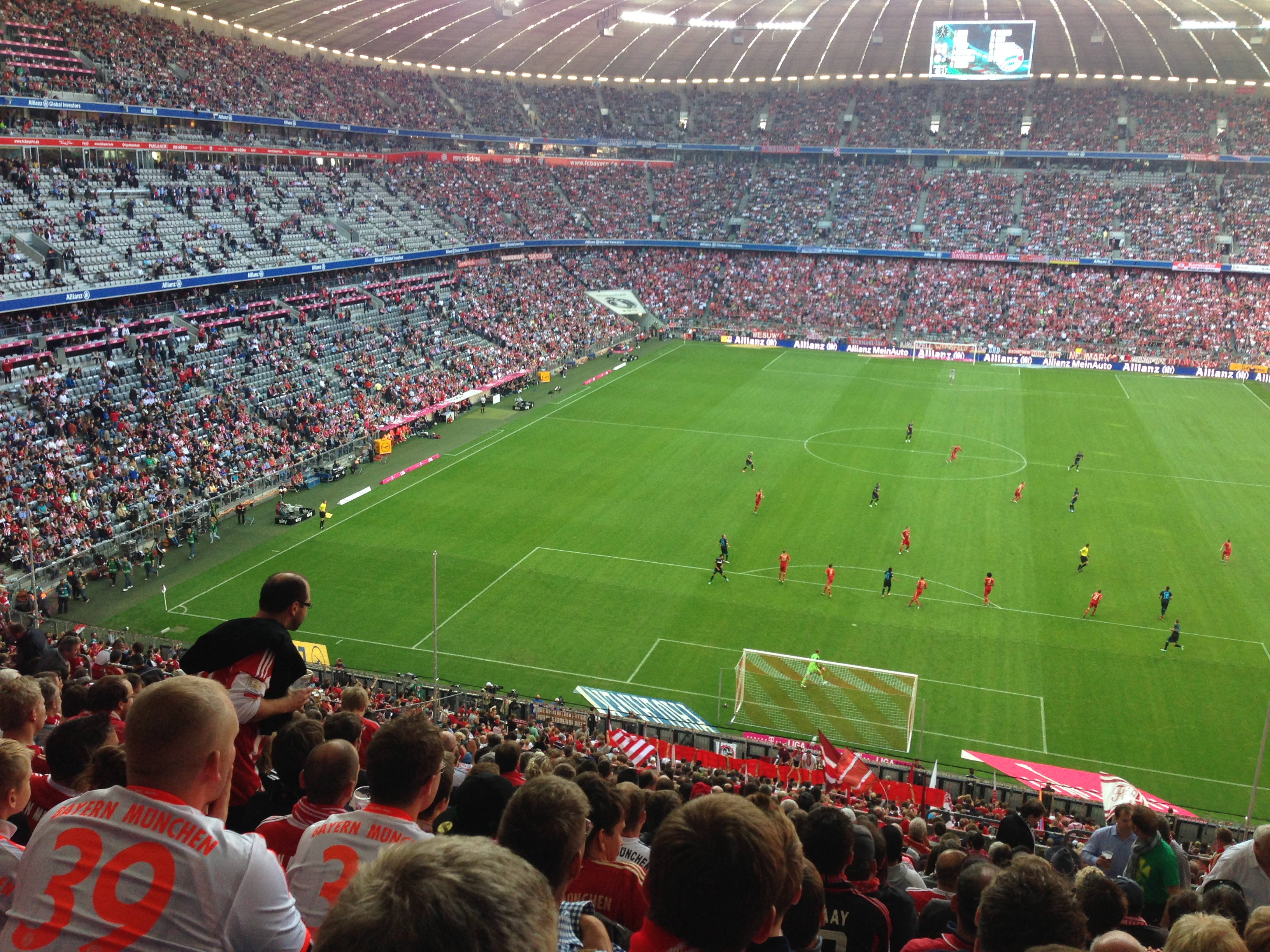 Playing Scene of the soccer Match between FC Bayern and 1899 Hoffenheim in the sold-out Allianz Arena in Munich